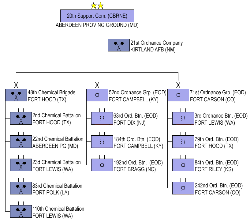 US Army 20th Support Command (CBRNE) Structure